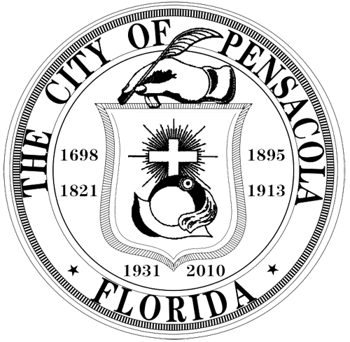 A work created by the City of Pensacola